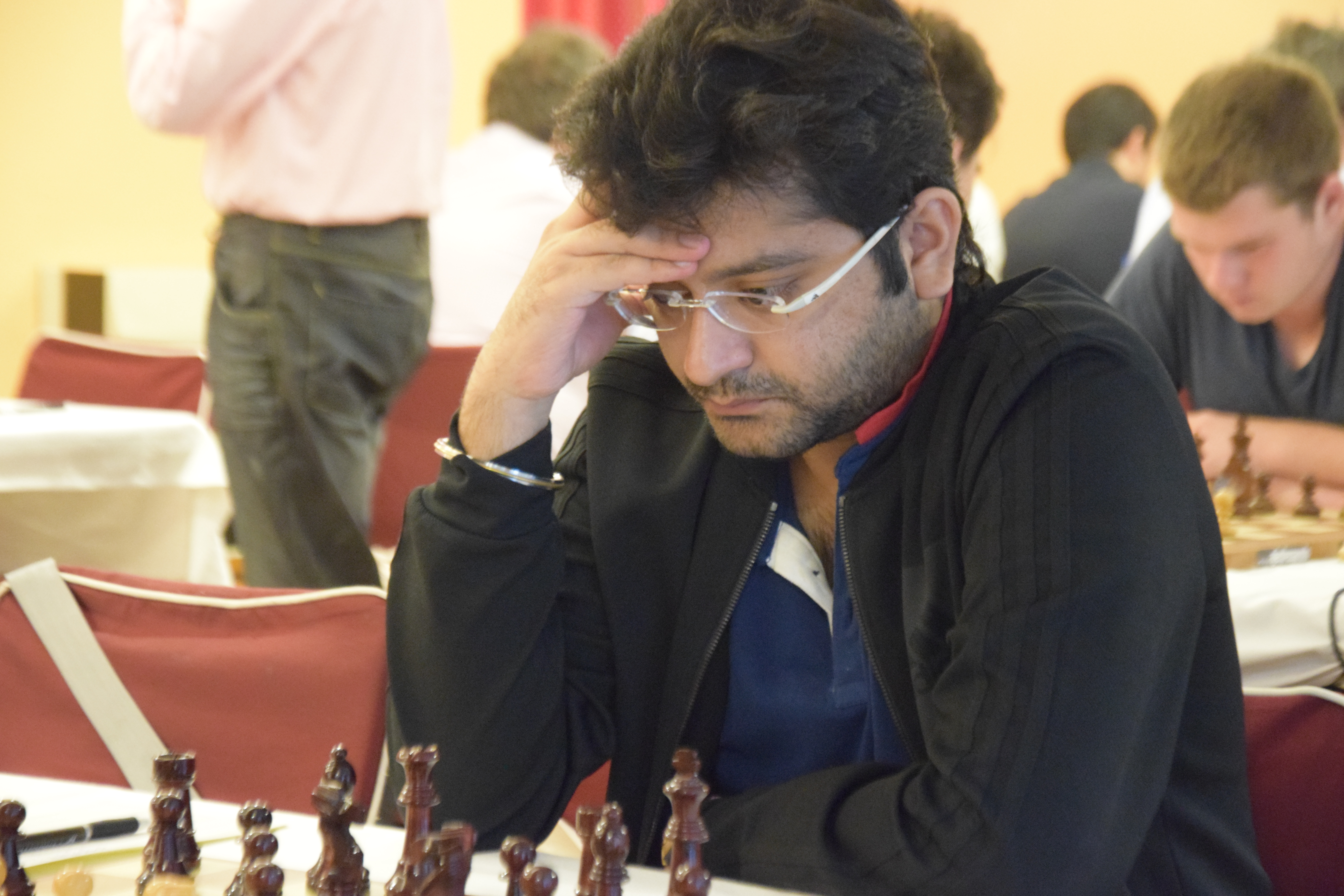 Grand Master Event in Hungarian Capital Budapest (1-11 december 2018).